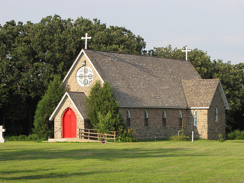 St. Cornelia's Episcopal Church, on the National Register of Historical Places